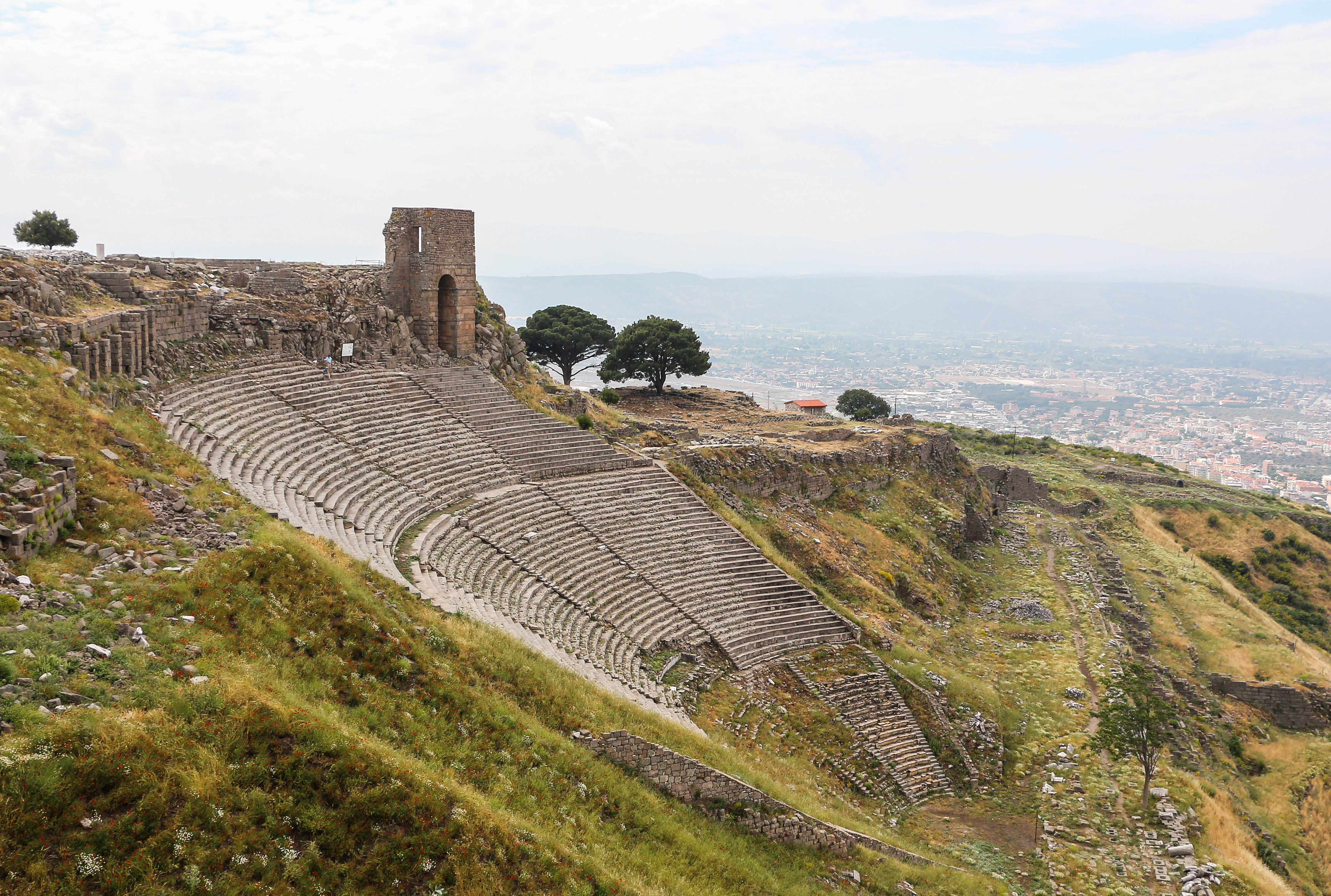 Ancient Greek theatre of Pergamon, Turkey